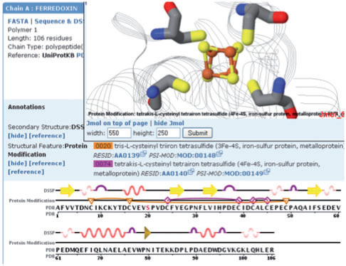 Screenshot of a web application developped using the said modules in BioJava